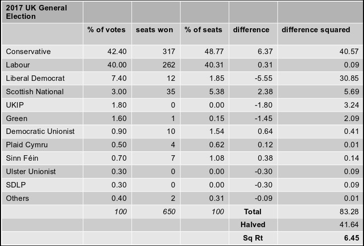 A table showing the disproportionality of the 57th House of Commons of the United Kingdom.